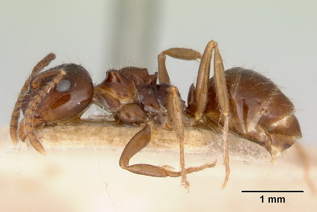 Profile view of ant Notoncus ectatommoides specimen casent0172023.